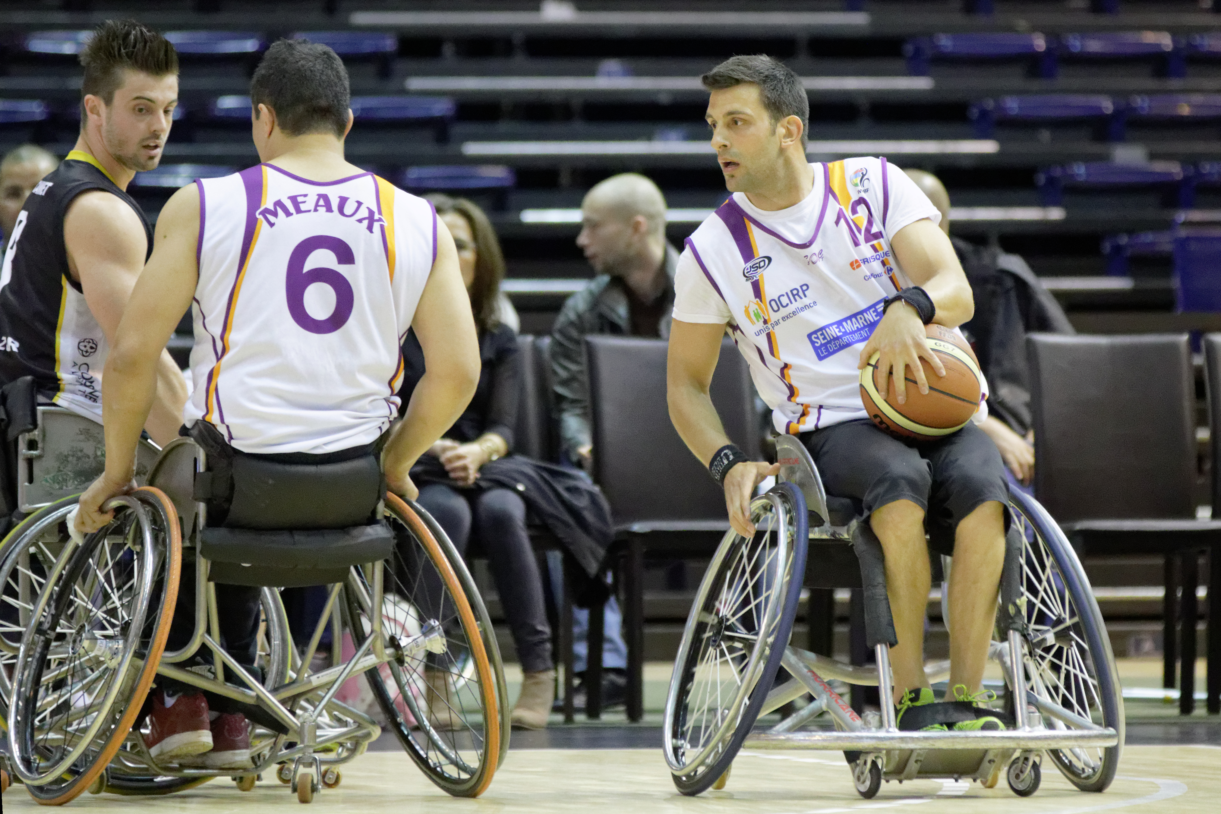 Final of the French Wheelchair Basketball Cup, CS Meaux vs Le Cannet, 1st May 2015.